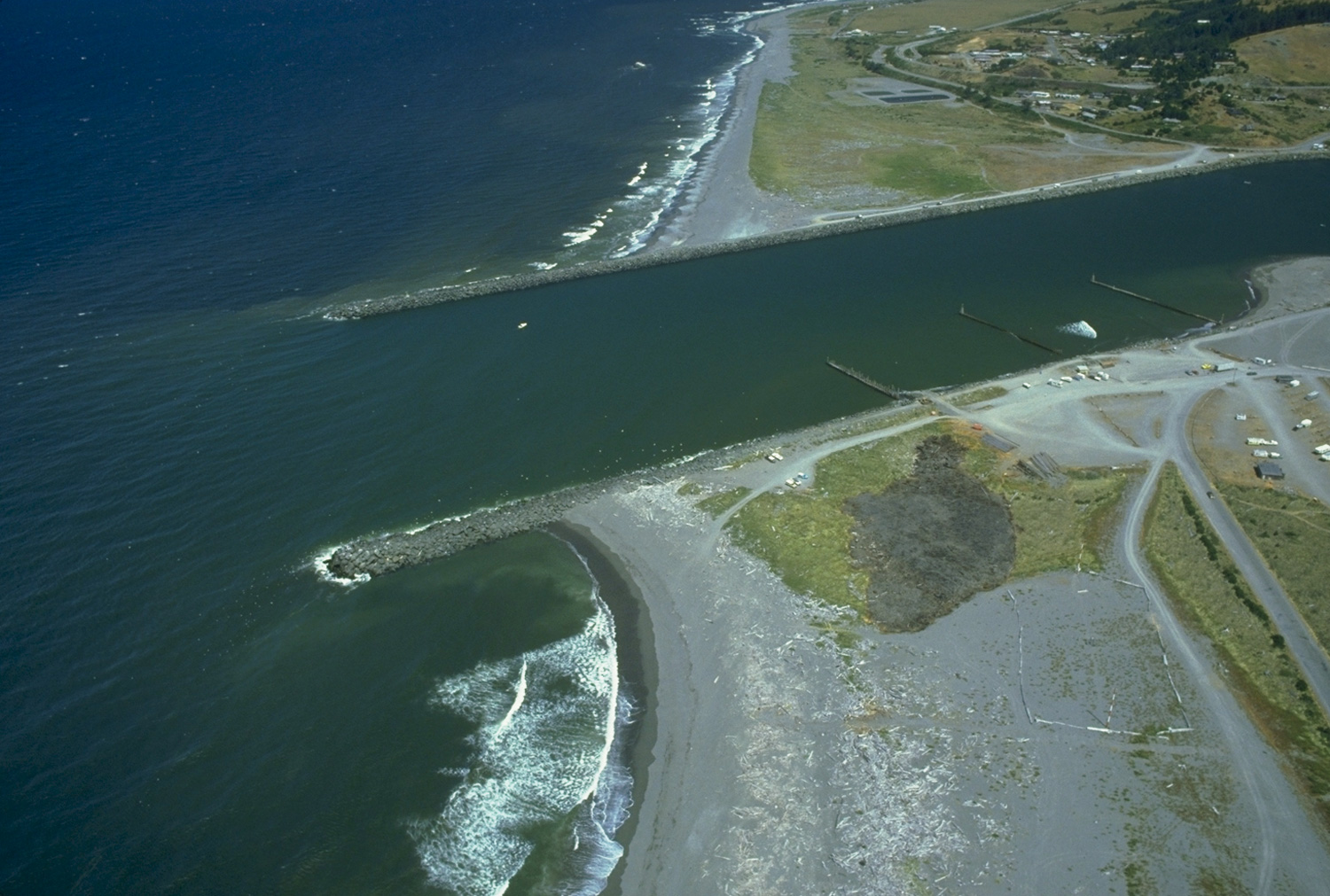 Mouth of the Rogue River in the Pacific Ocean at Gold Beach, Oregon, with jetties constructed by the U.S. Army Corps of Engineers.